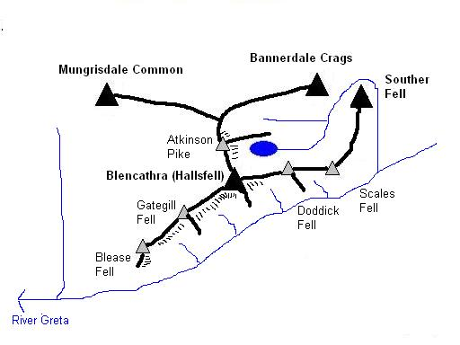 Sketch map of Blencathra, English Lake District